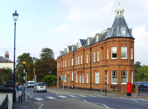 The former Conservative Club in Sevenoaks, Kent, UK. Now converted into offices. Positioned at the junction between St. John's Hill and Seal Hollow Road and over looking the Vine cricket ground.